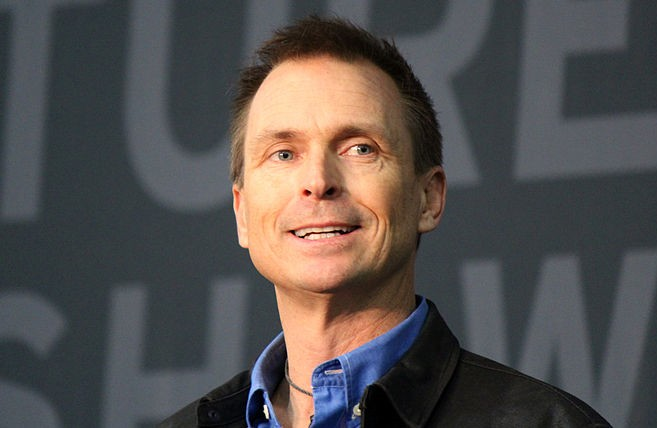 Phil Keoghan speaking at the San Diego Travel & Adventure Show at the San Diego Convention Center.